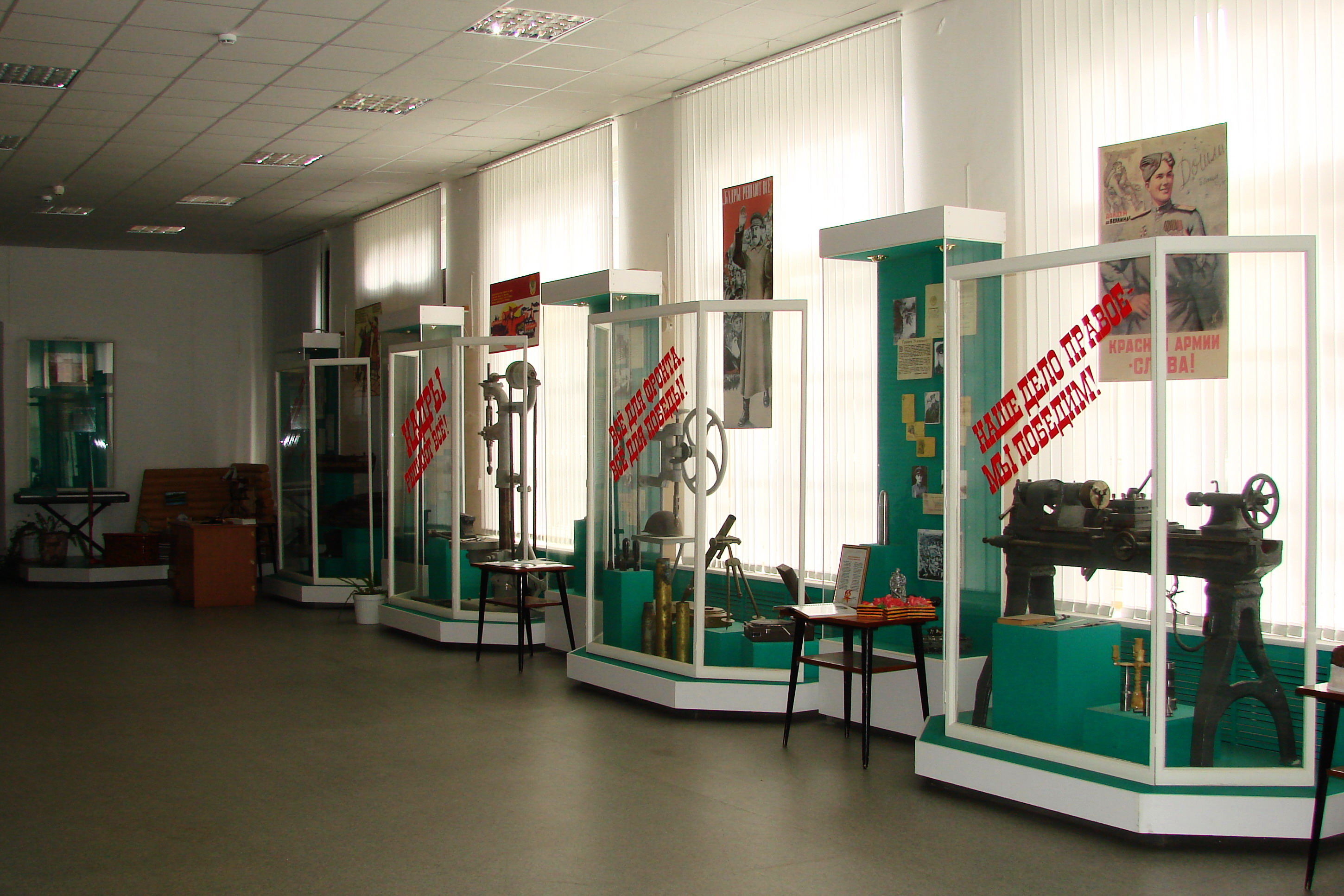 Russia, Vologda PTO museum, part of museum exhibition